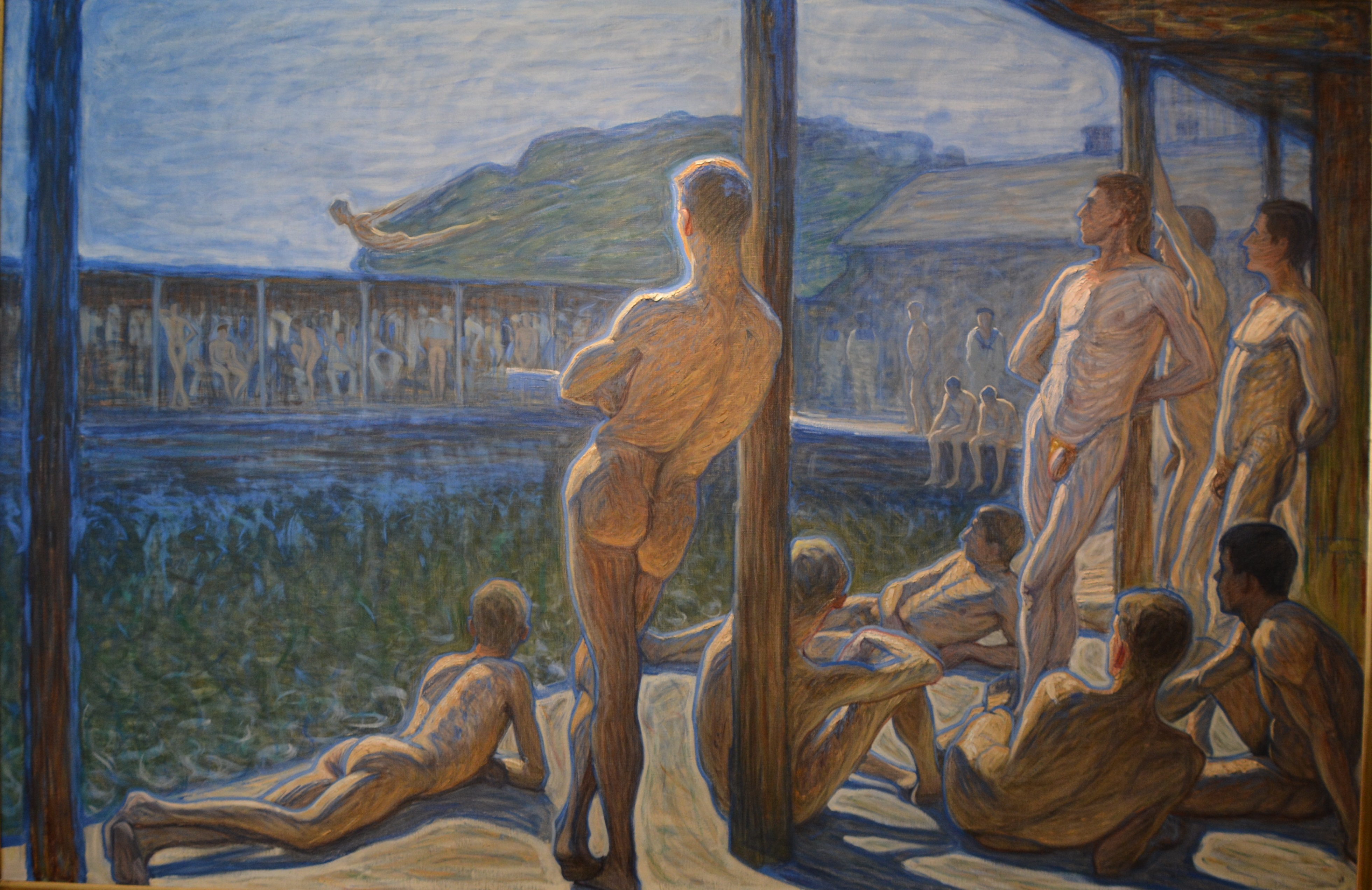 Flottans badhus av Eugène Jansson, Thielska galleriet. Målningen är marginellt beskuren i nederkanten